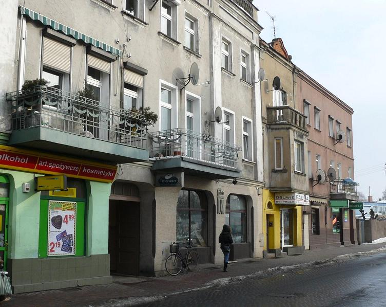 Mosina - City Center.